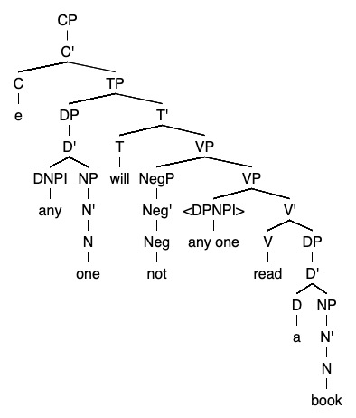 Tree showing an ungrammatical sentence using NPI